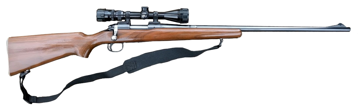 Remington Model 722A rifle chambered for .244 (6mm) manufacture date 1955